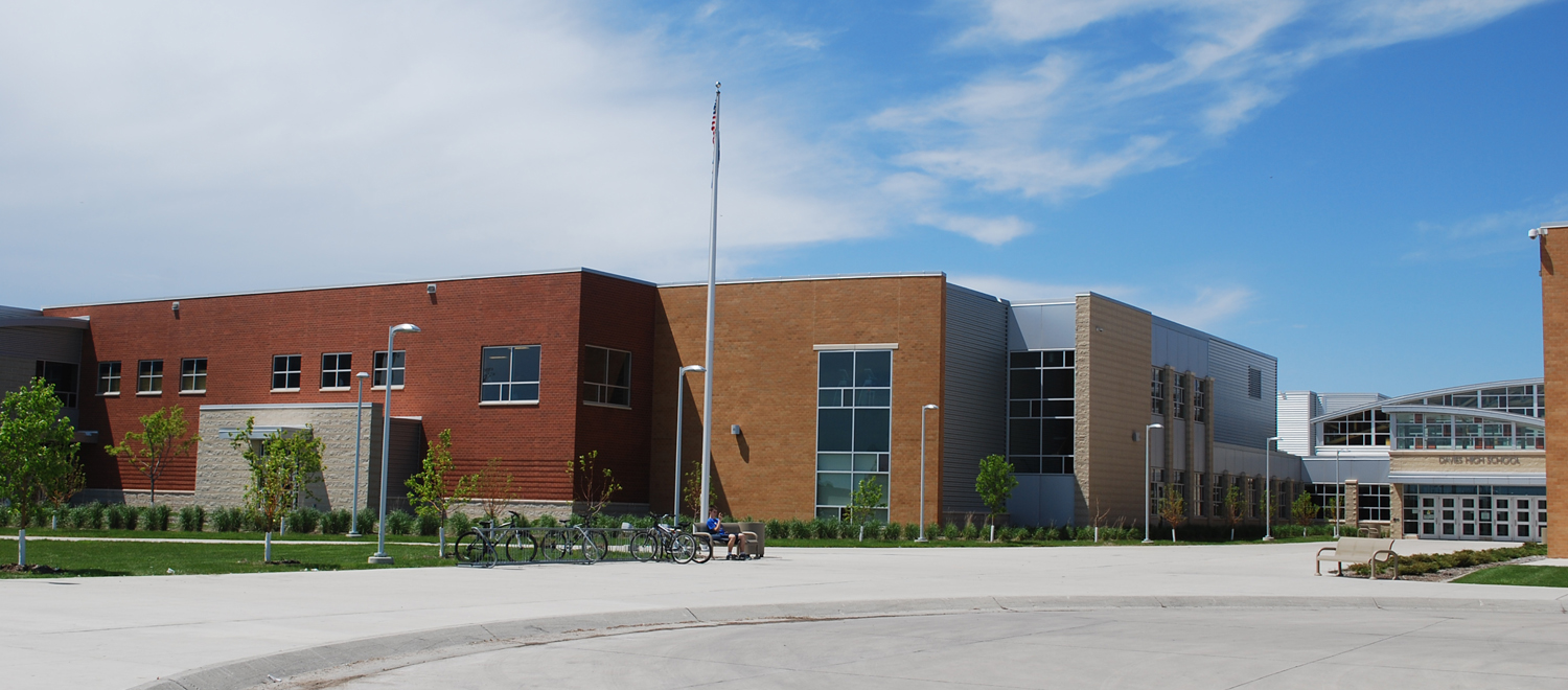 Davies High School located in Fargo, ND; as seen from the east entrance of the school building.